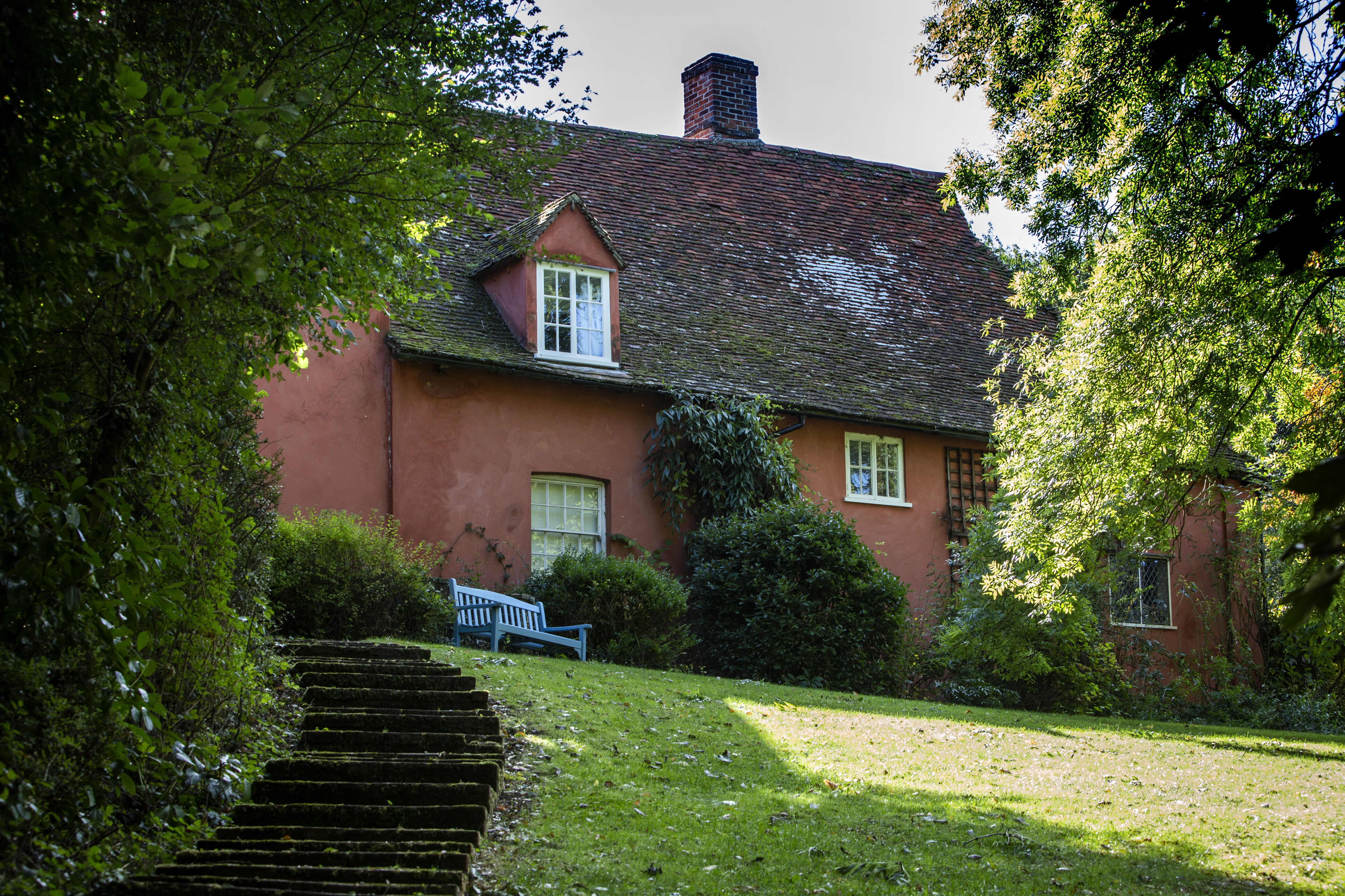 Abbas Hall is a small country house with an Elizabethan exterior masking a two-bay aisled hall from c1290.